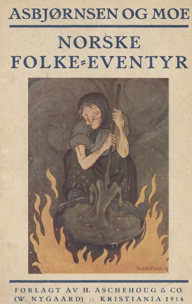 Inset/Title Page art to 1914 edition of Asbjornsen & Moe's Norske folkeeventyr, by Theodor Kittelsen, artist, d. 1914